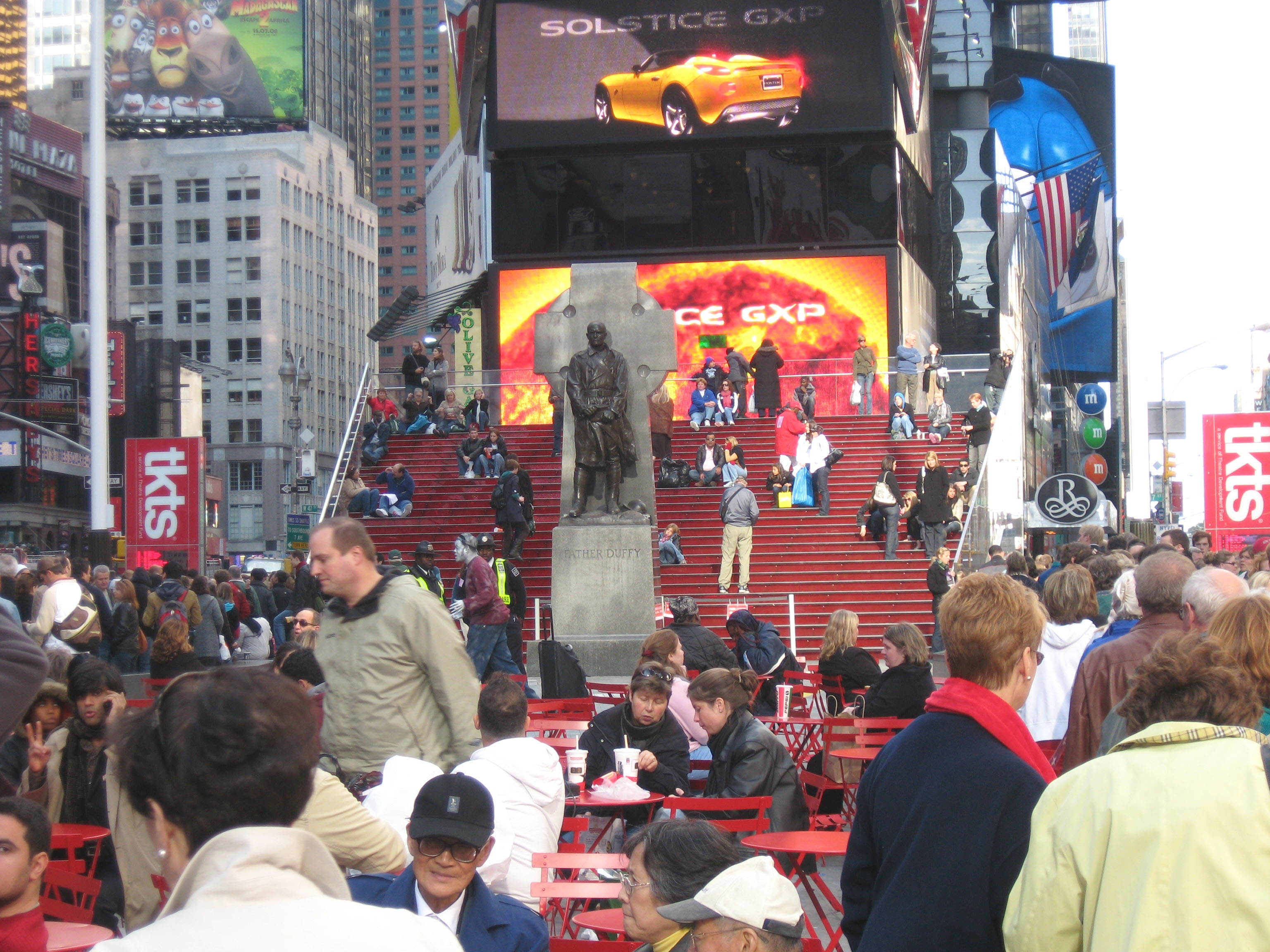 Looking north at Duffy Square from 46th Street in shadow on a sunny late afternoon